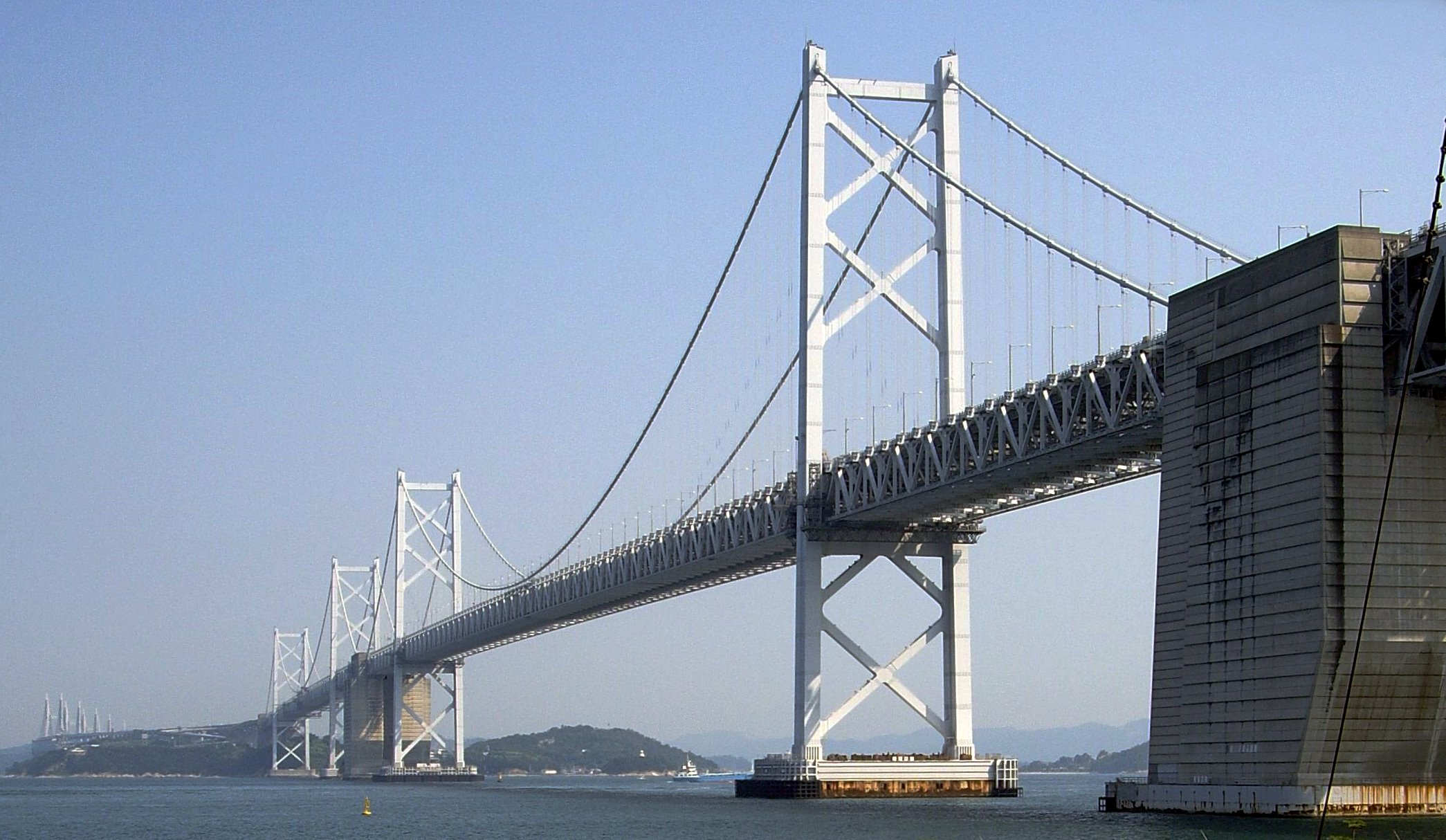 This is a smaller version of Image:SetoohashiKinenKouen-Malin_dome01.jpg. It has been rotated, cropped, the right top corner of sky was digitally airbrushed in to cover a shadow, and the contrast and exposure was adjusted.